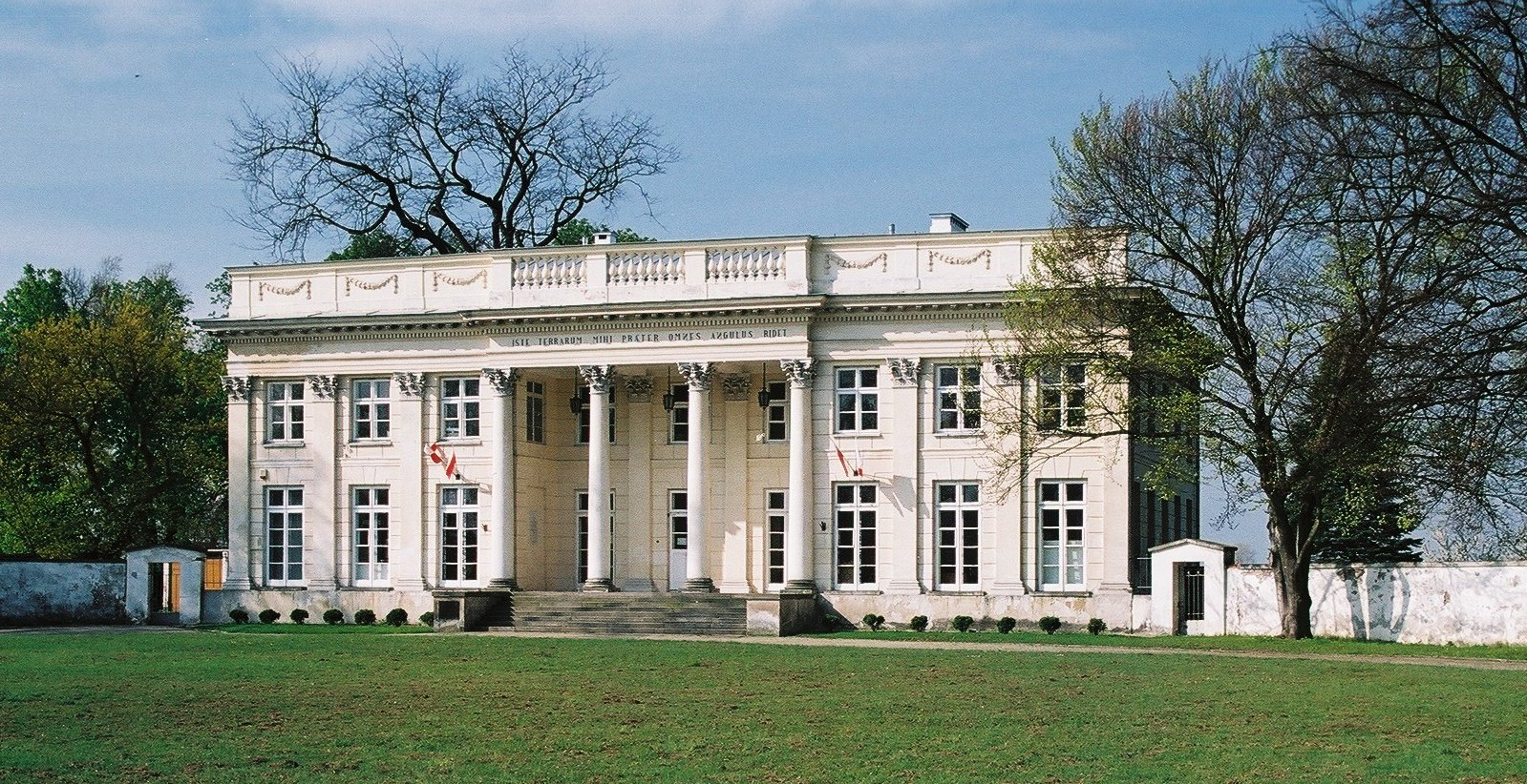 Pałac Marynki in Puławy, Poland; view from north-east; palace park is on the right; was built for the duchess Maria Wirtemberska by her parents.